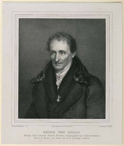 The german painter Johann Georg von Dillis (1759-1841)